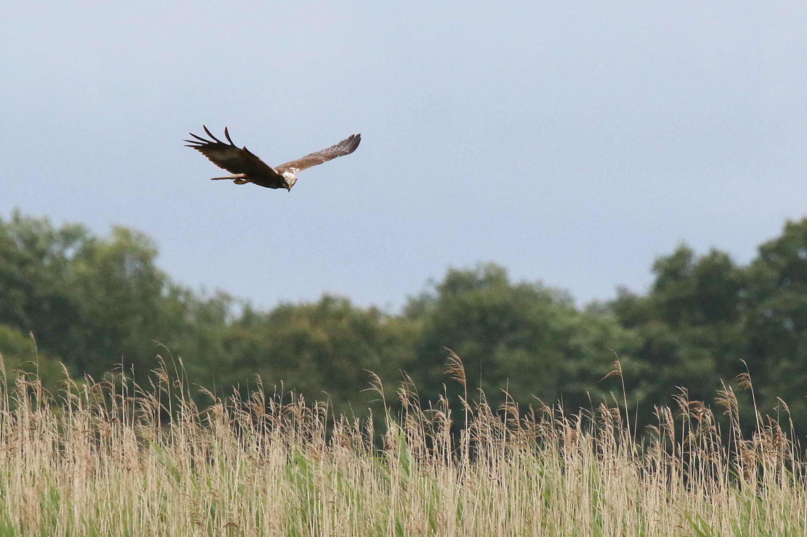 Marsh harrier (Circus aeruginosus) female, Hickling Broad, Norfolk